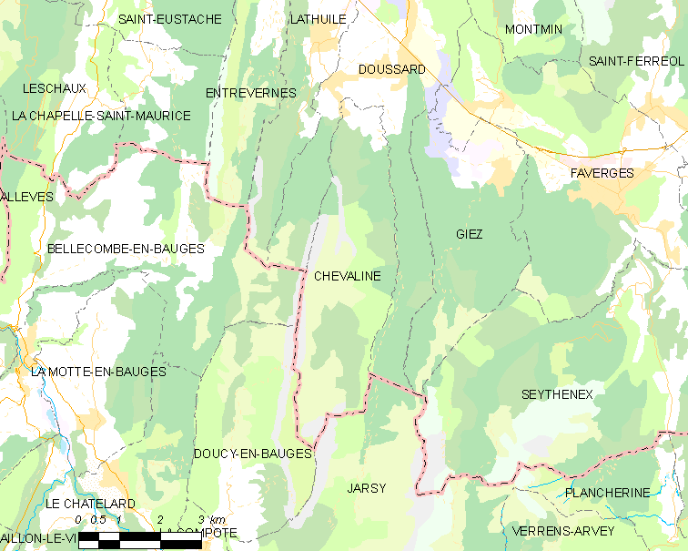 Map of French municipality Chevaline